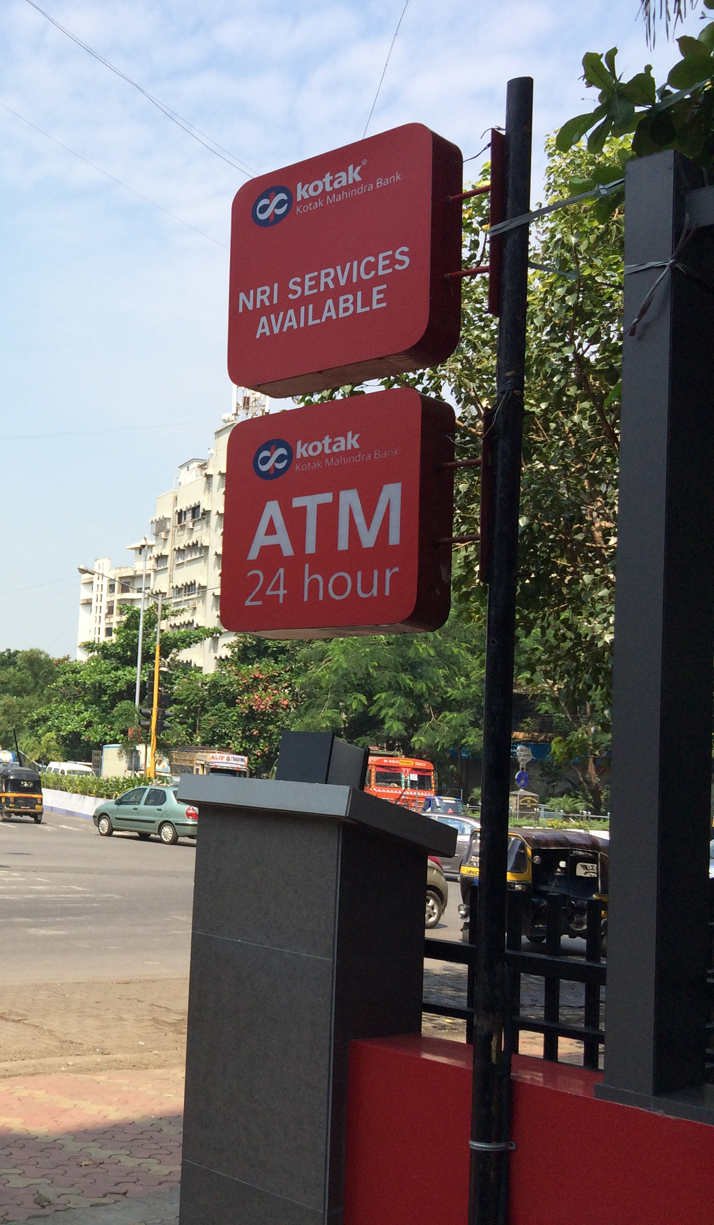 Kotak Mahindra Bank ATM, Santa Cruz, Mumbai